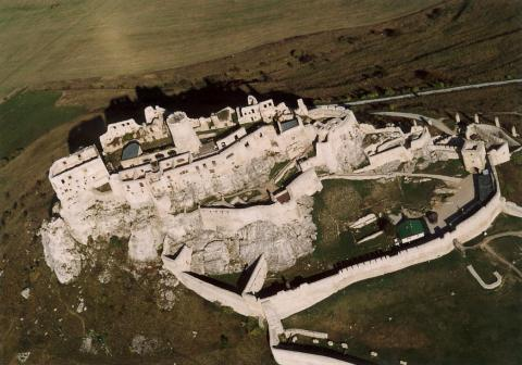 Spiš Castle, Slovakia, aerial photography